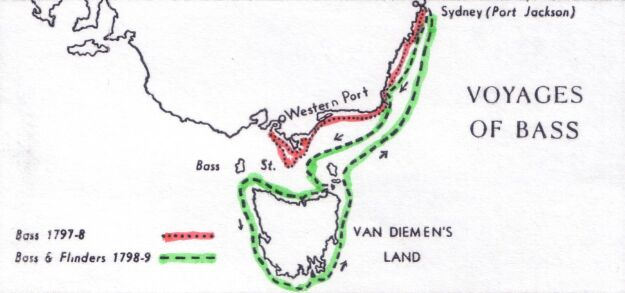 Map of the explorer's route in Australia. This image is of Australian origin and is now in the public domain because its term of copyright has expired. According to the Australian Copyright Council (ACC), ACC Information Sheet G023v16 (Duration of copyright) (Feb 2012). Type of materialCopyright has expired if ... A Photographs or other works published anonymously, under a pseudonym or the creator is unknown:taken or published prior to 1 January 1955 B Photographs (except A):taken prior to 1 January 1955 C Artistic works (except A & B):the creator died before 1 January 1955 D Published editions1 (except A & B):first published more than 25 years ago E Commonwealth or State government owned2 photographs and engravings:taken or published more than 50 years ago and prior to 1 May 1969 1 means the typographical arrangement and layout of a published work. eg. newsprint. 2owned means where a government is the copyright owner as well as would have owned copyright but reached some other agreement with the creator. When using this template, please provide information of where the image was first published and who created it.